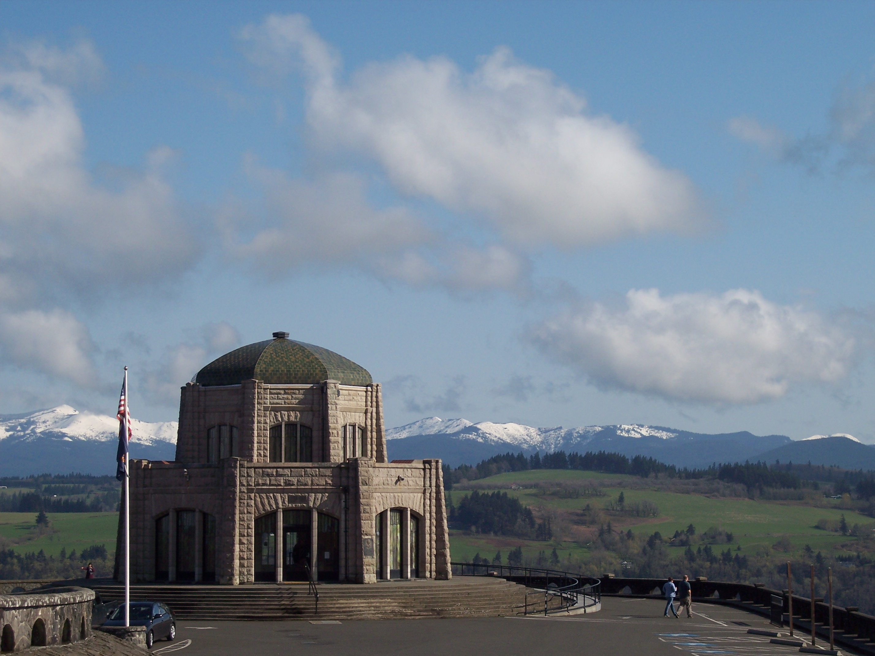 Crown Point Vista House, near Corbett, Oregon